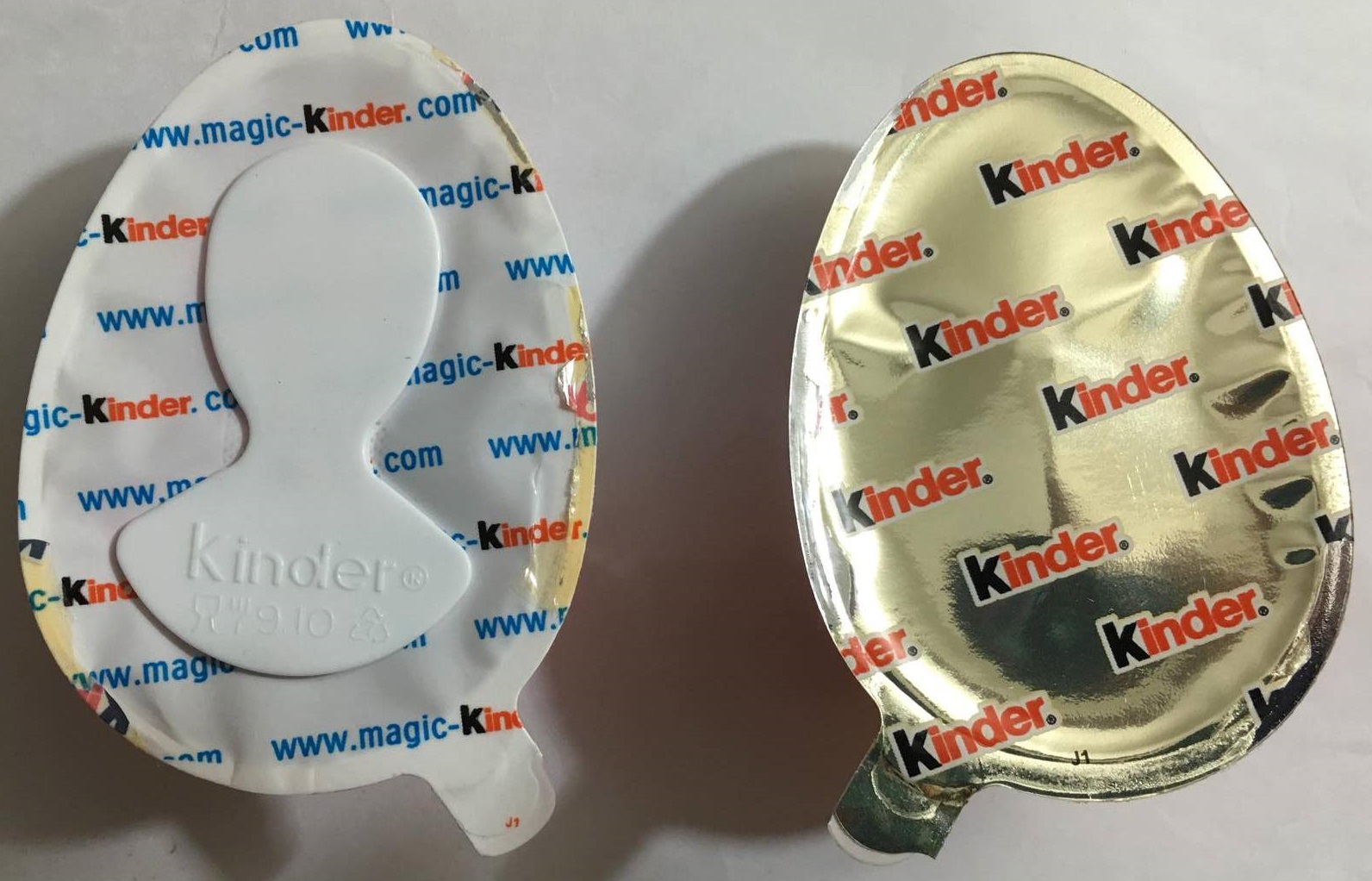 Open Kinder Joy 中文（香港）: 打開包裝的Kinder奇趣蛋